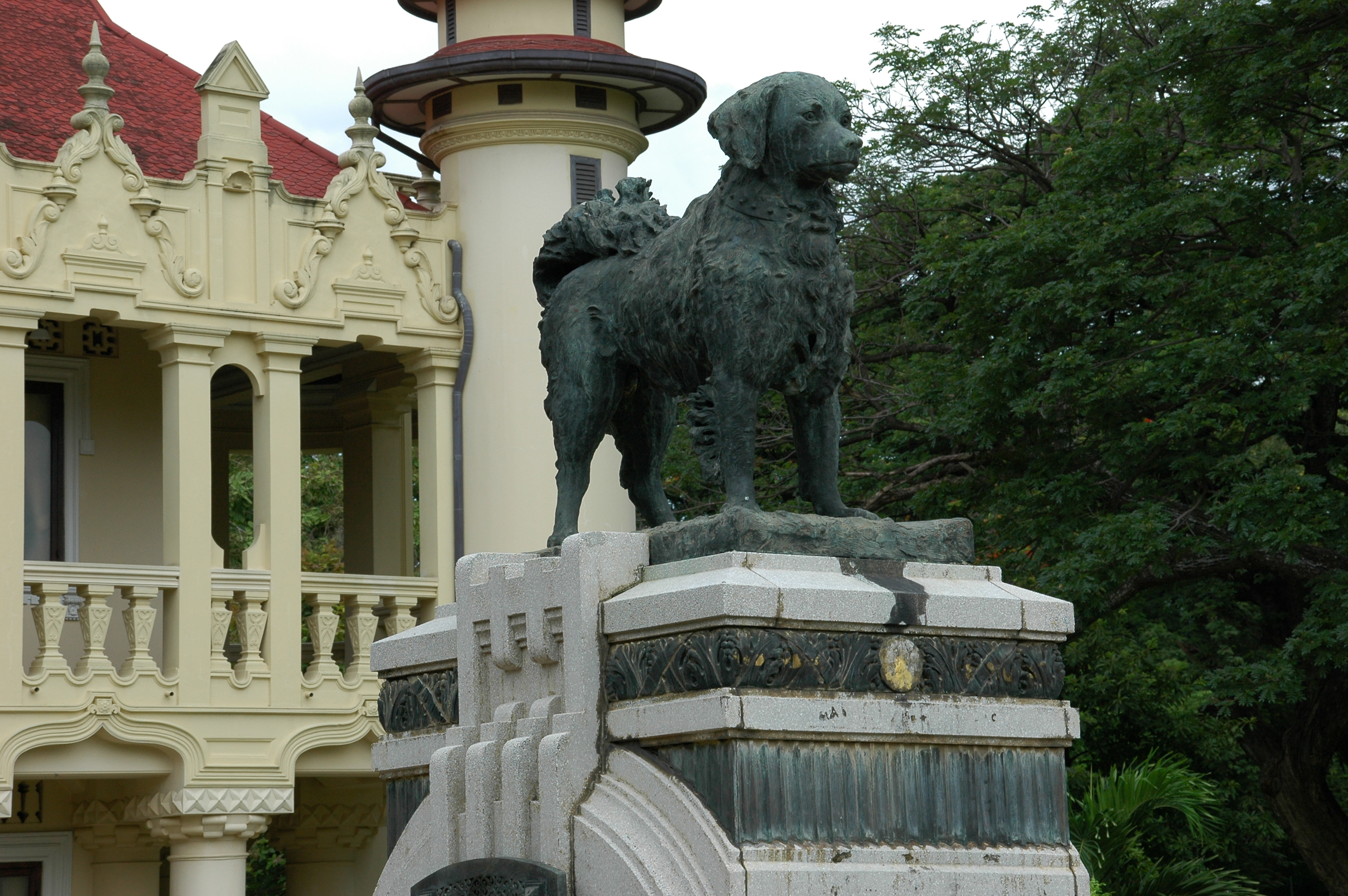 Jarlet Monument, Sanam Chan, Nakhon Pathom, Thailand